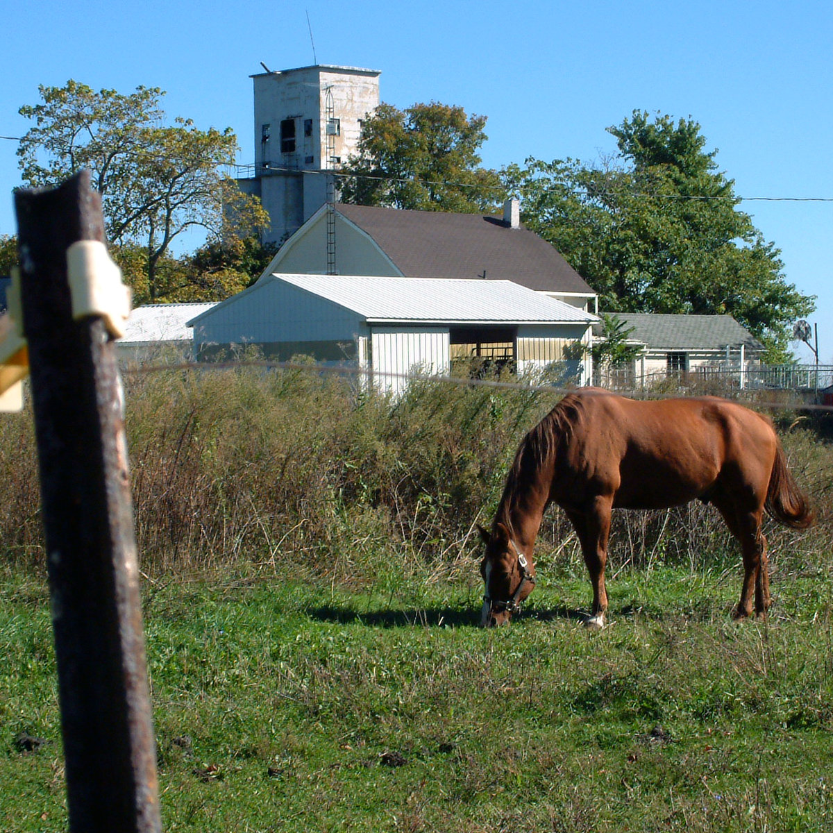 Judyville, Indiana. This photo was taken from 2nd Avenue, looking southeast.